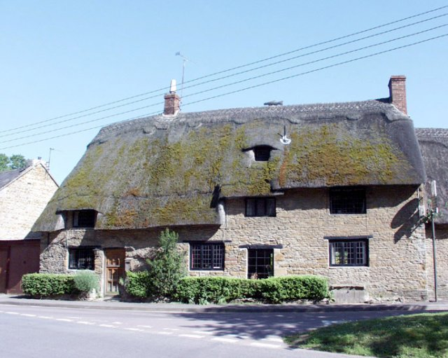 The Ridge House, Duns Tew, Oxfordshire